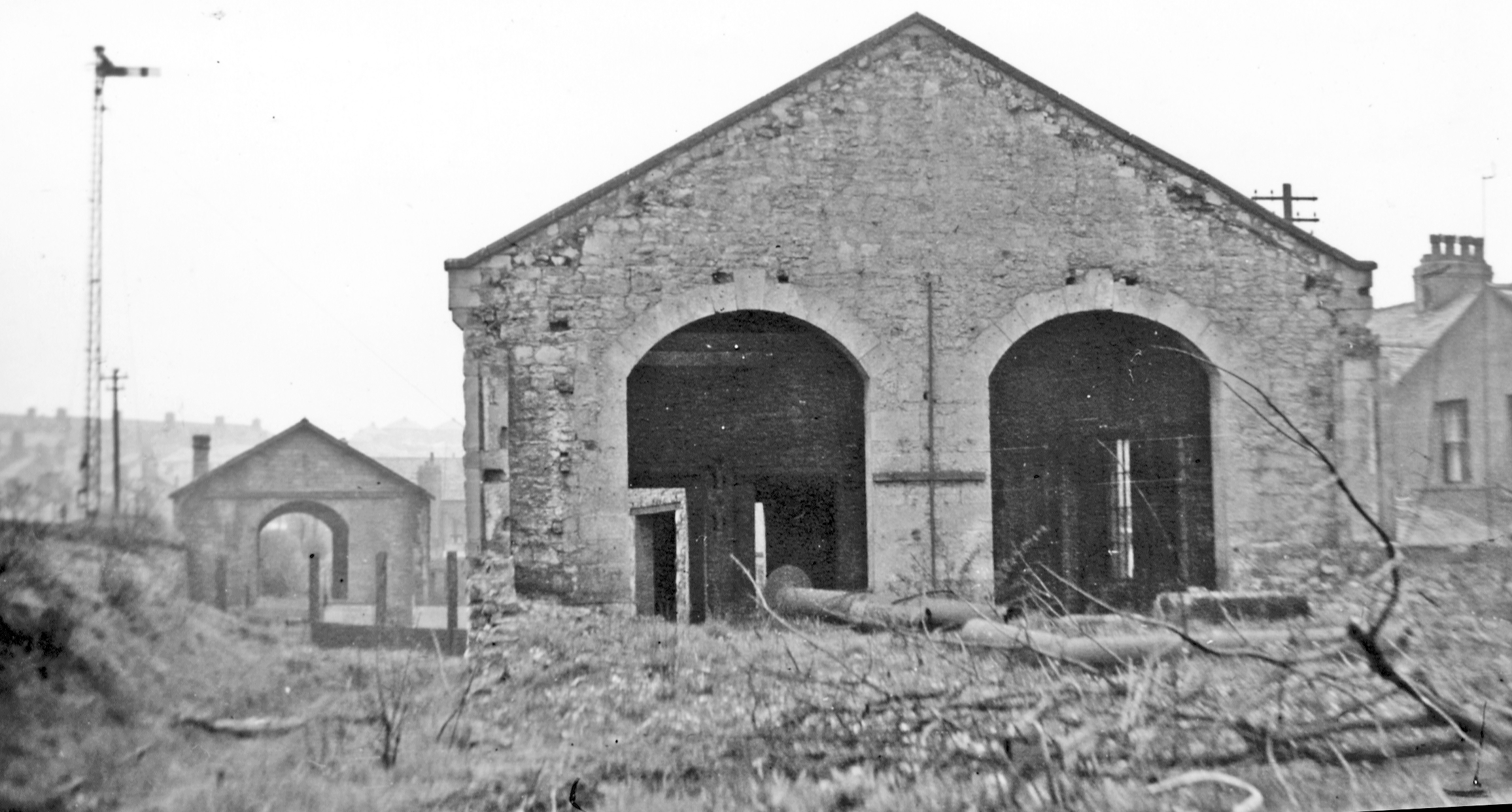 Workington Central, ex-C&W Junction derelict Locomotive Shed, 1951View southward, just south of the former Workington Central station: see NY0028 : Northward at former Workington Central station, May 1951.